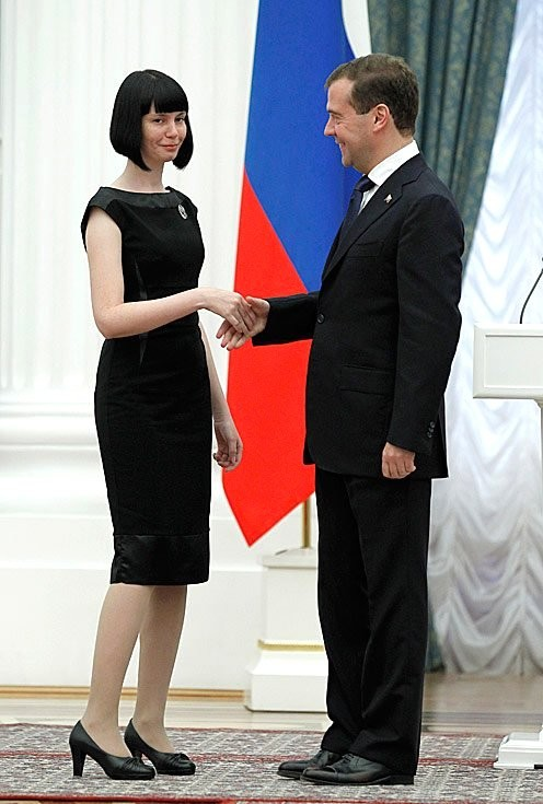 Russian President Dmitriy Medvedev and poetess Maria Markova in Kremlin